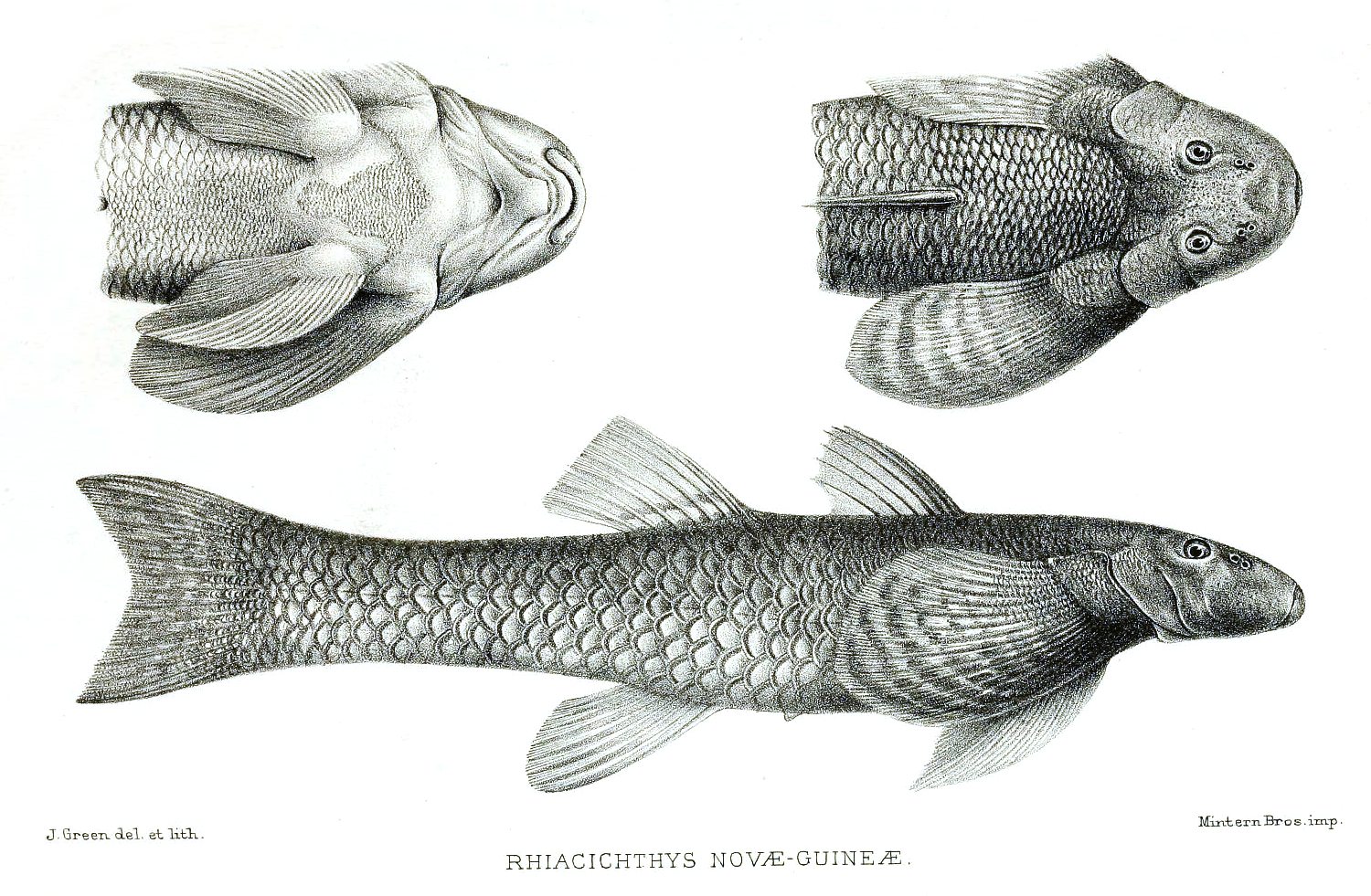 Rhiacichthys novae-guineae